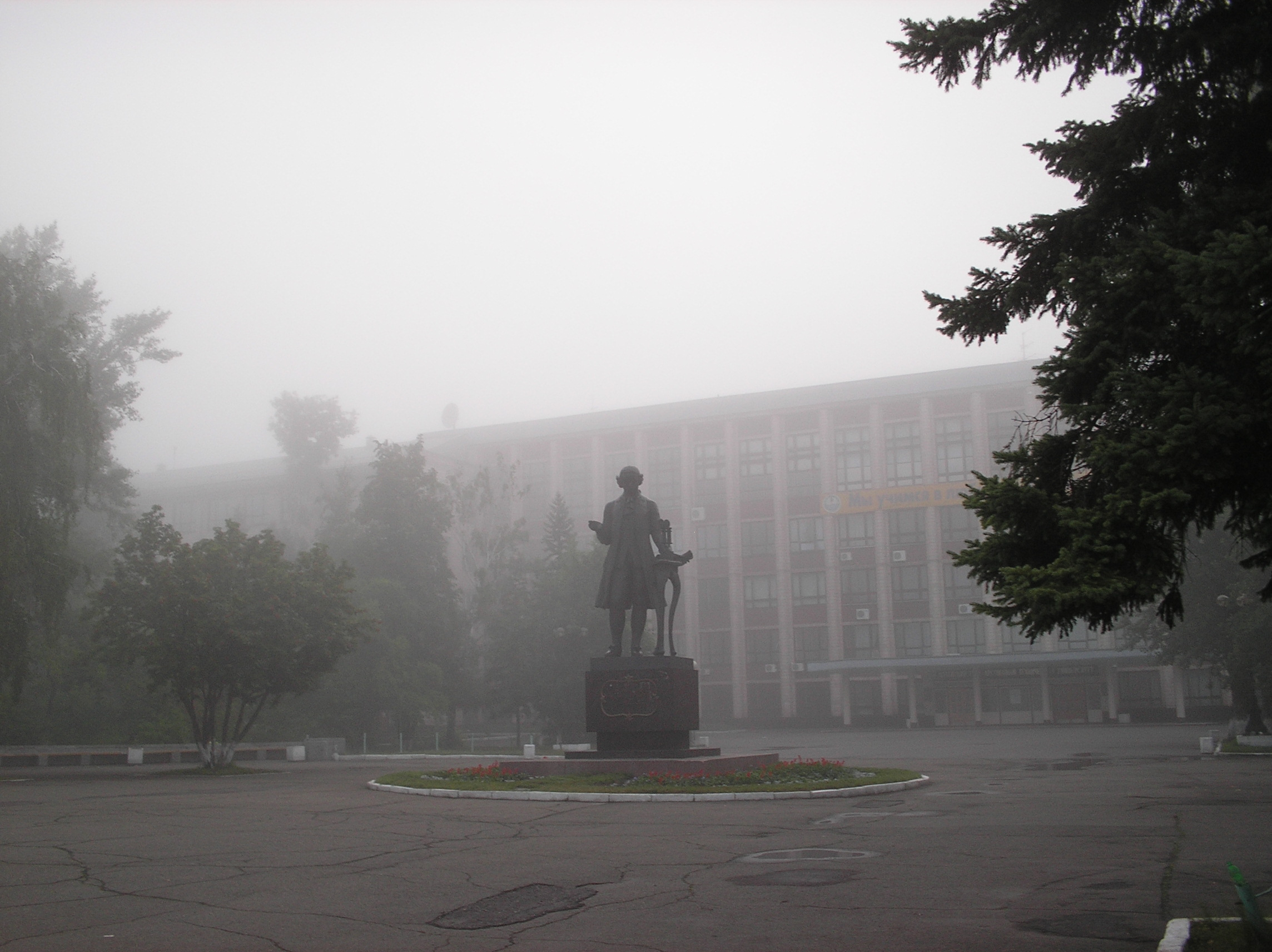 Altai State Technical University and the monument to Ivan Polzunov (Barnaul)